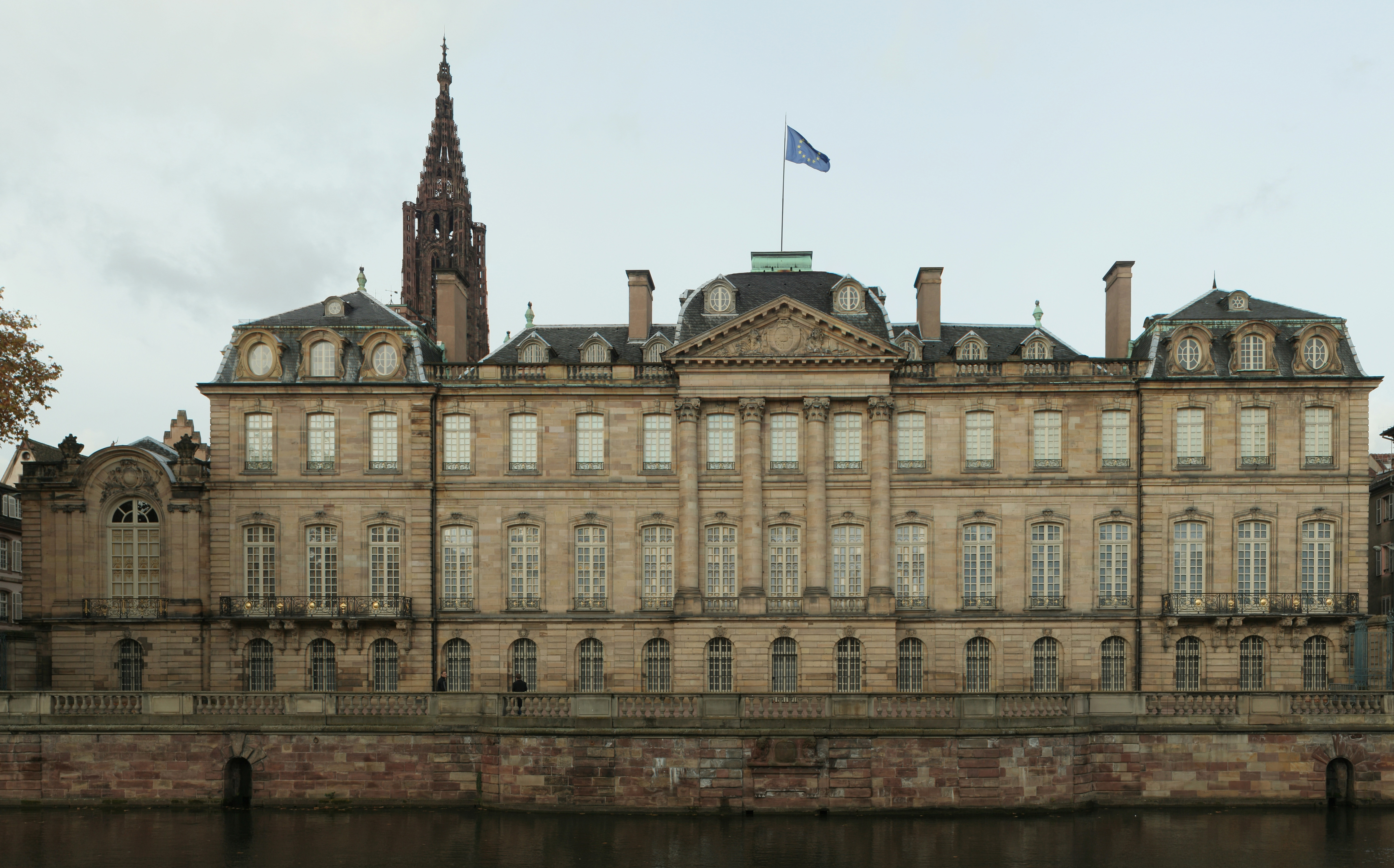 Riverside facade of the Palais Rohan, Strasbourg